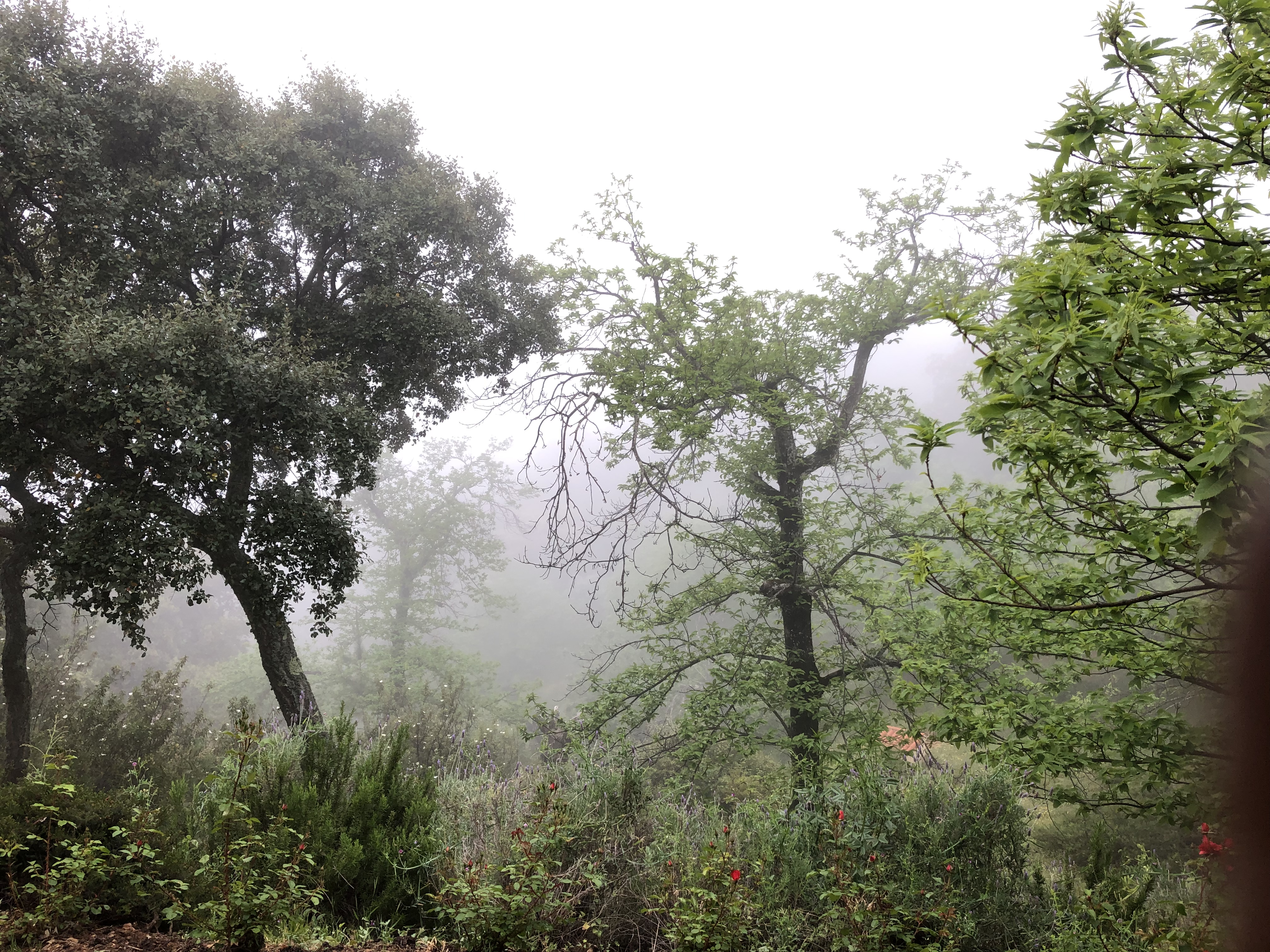 When the weather was cloudy and some fog, these oaks stood majestically in front of me This is a photography of a Special Area of Conservation in Spain with the ID: ES0000051. Natura2000 entry, EEA entry